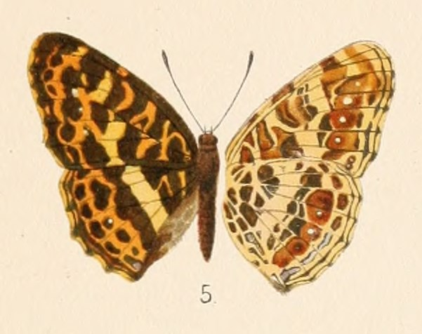 Araschnia doris (male) John Henry Leech - Butterflies from China, Japan and Corea - Plate 26